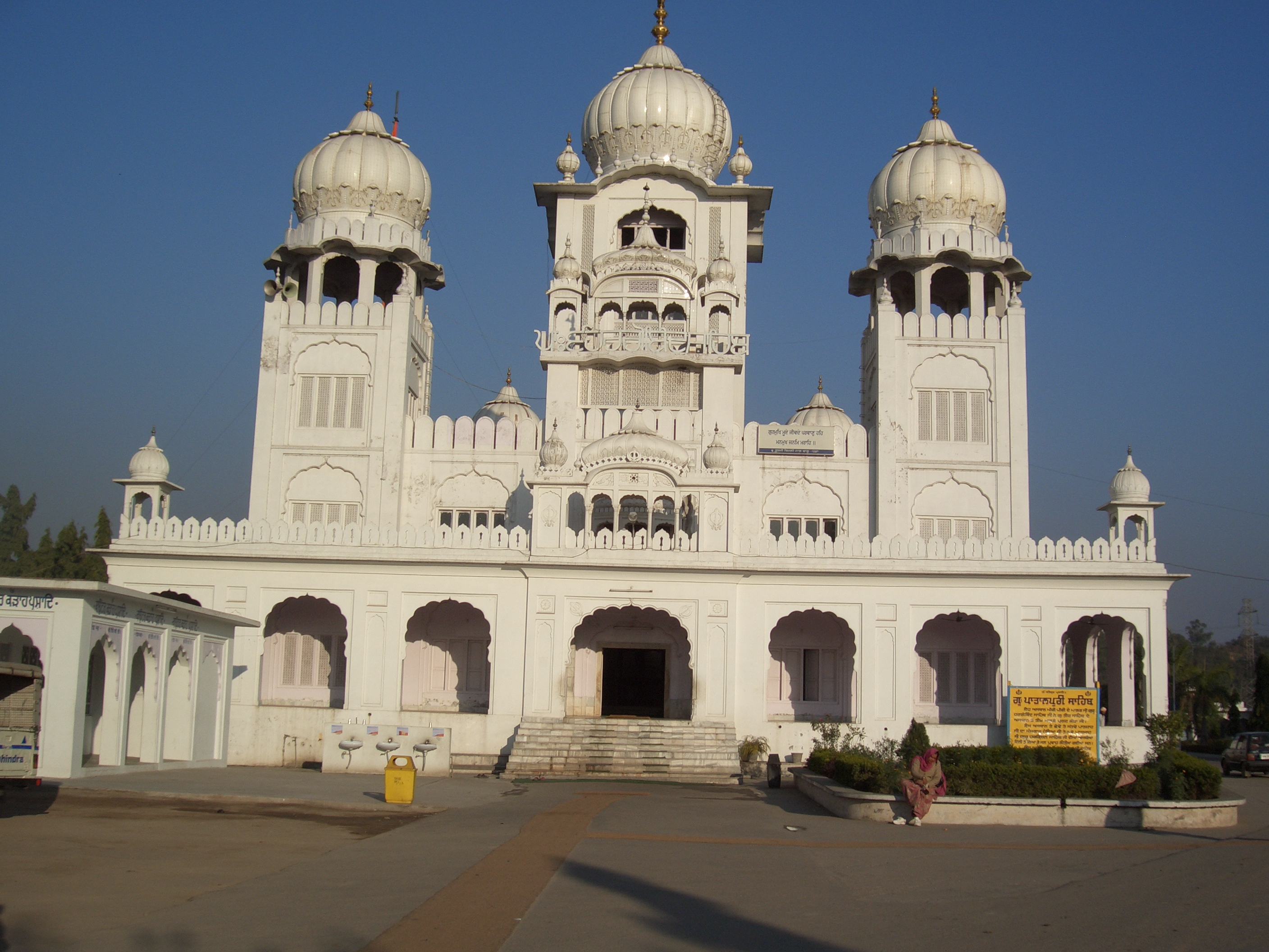 Gurdwara Patalpuri, in Kiratpur, Punjab, India, where most Sikhs from all over the world go to immerse the ashes of their dead. This holy shrine was established by Guru Hargobind in about 1627.